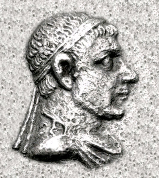 Peukolaos portrait